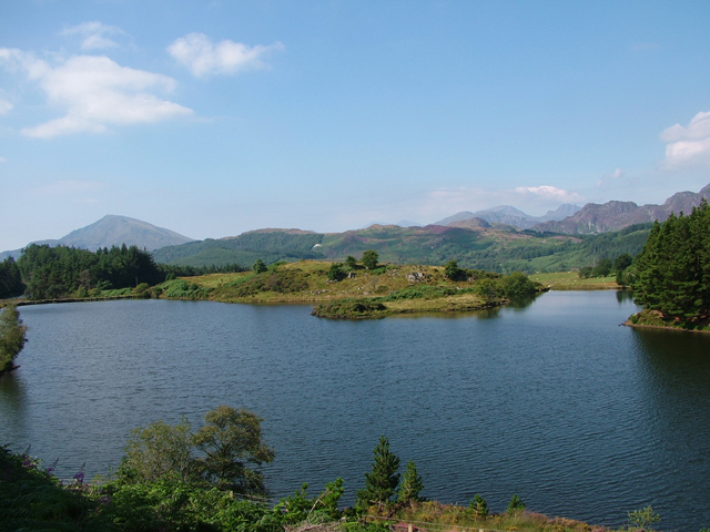 Llyn Glangors. Looking WSW across the lake - Moel Siabod on the left in the distance - Tryfan and Glyders on the right.